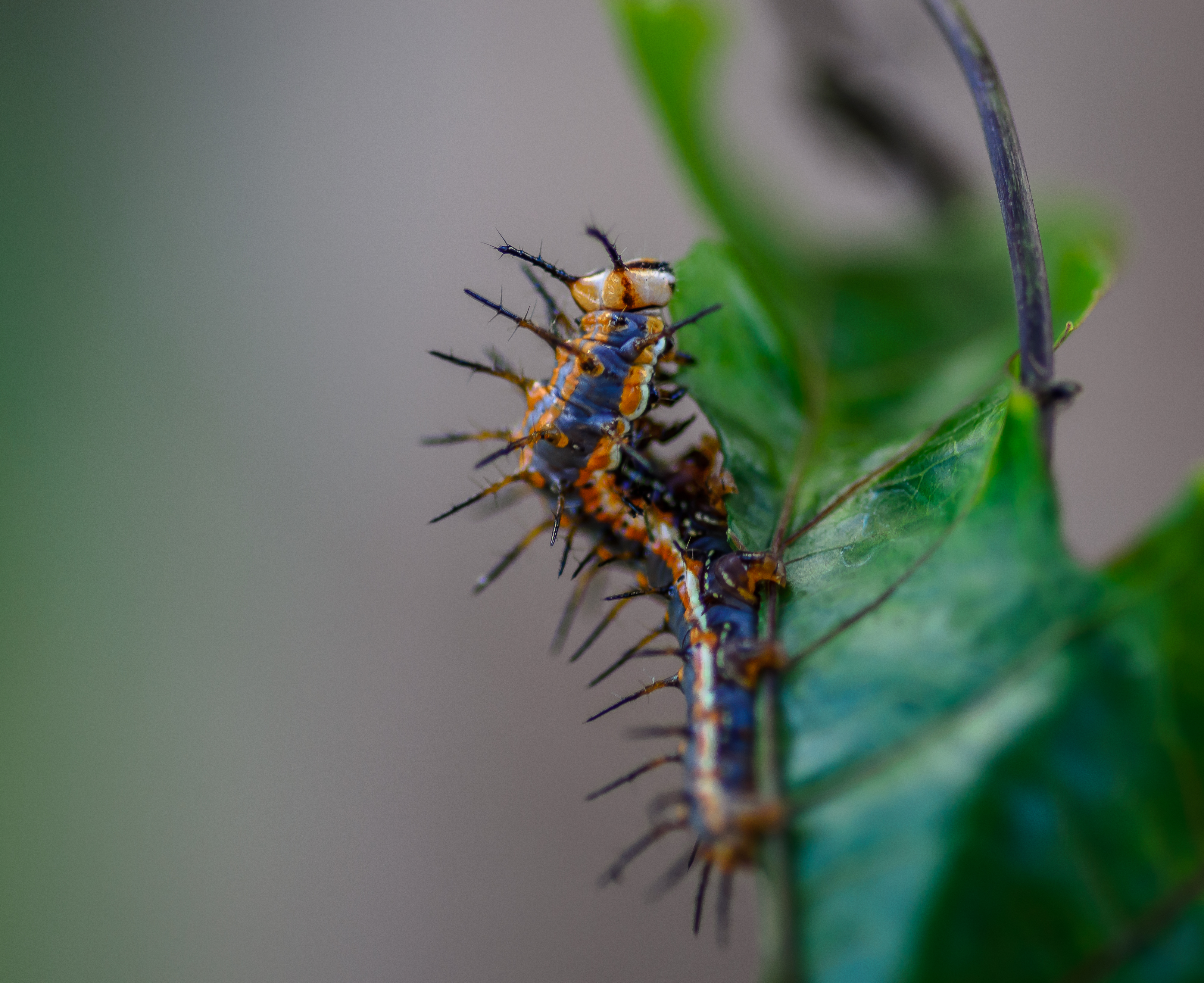 Gulf fritillary (Agraulis vanillae) caterpillar on a passiflora vine in Honolulu, Hawaiʻi.